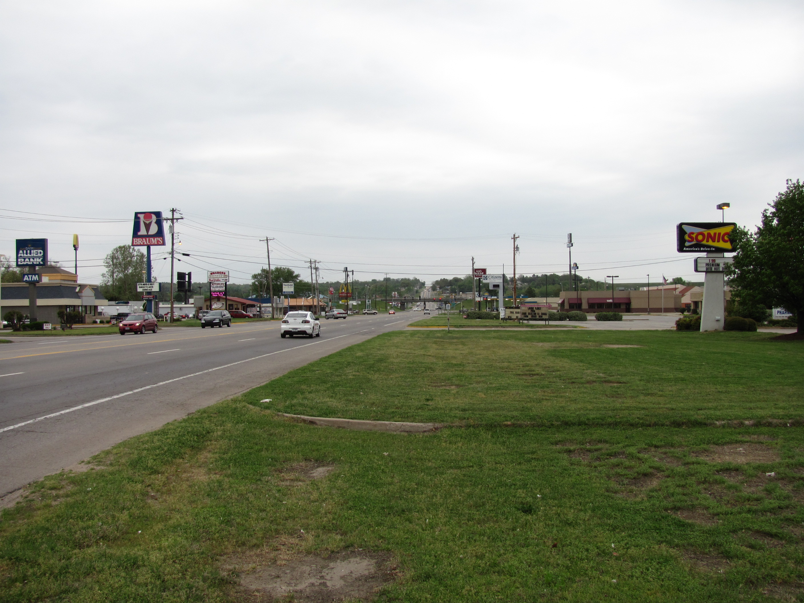 Southfork Street, Alma Arkansas